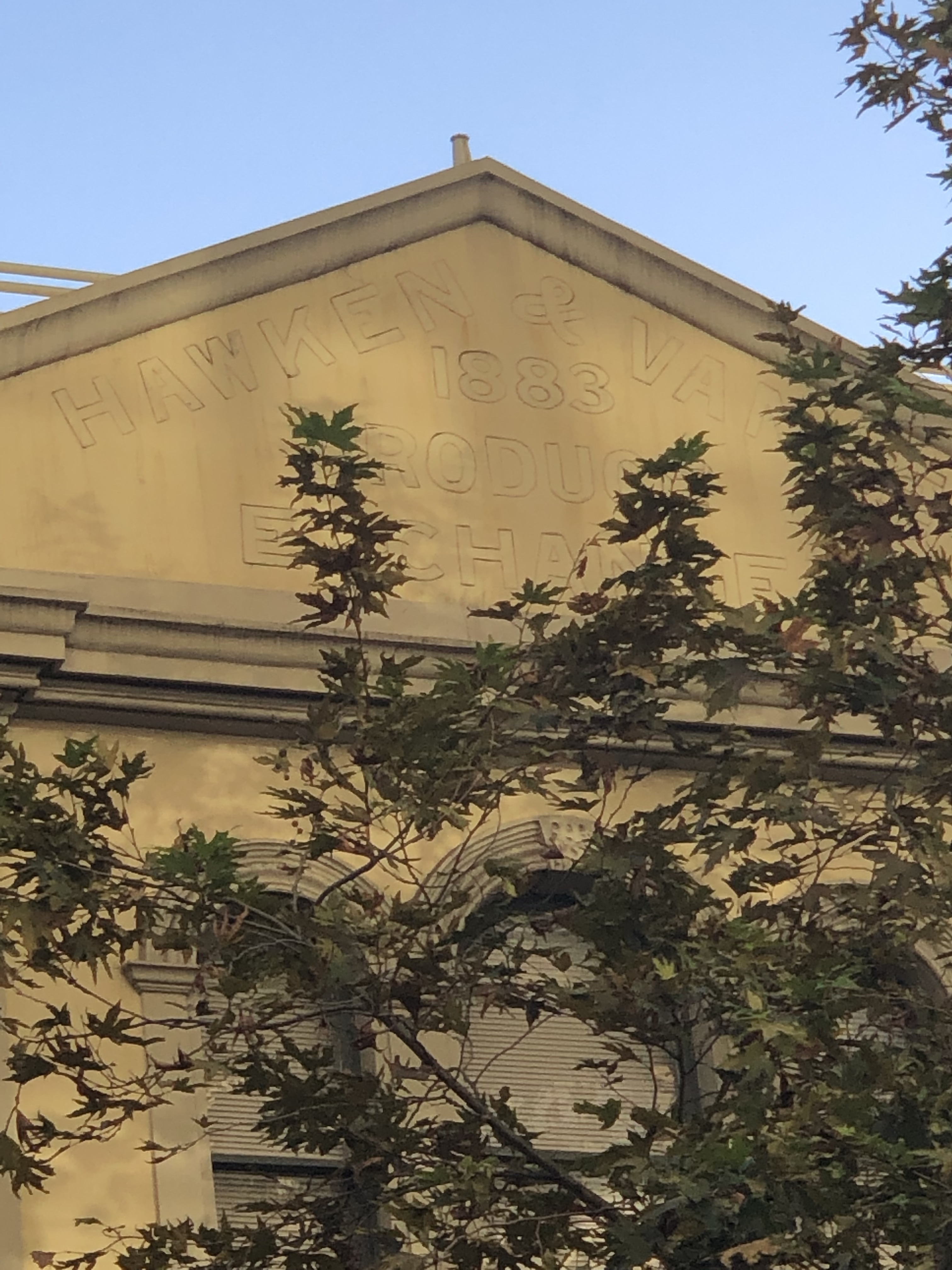 Hawken and Vance Produce Exchange, 95-99 Sussex Street, Sydney, New South Wales, Australia. This building is listed on the New South Wales State Heritage Register.